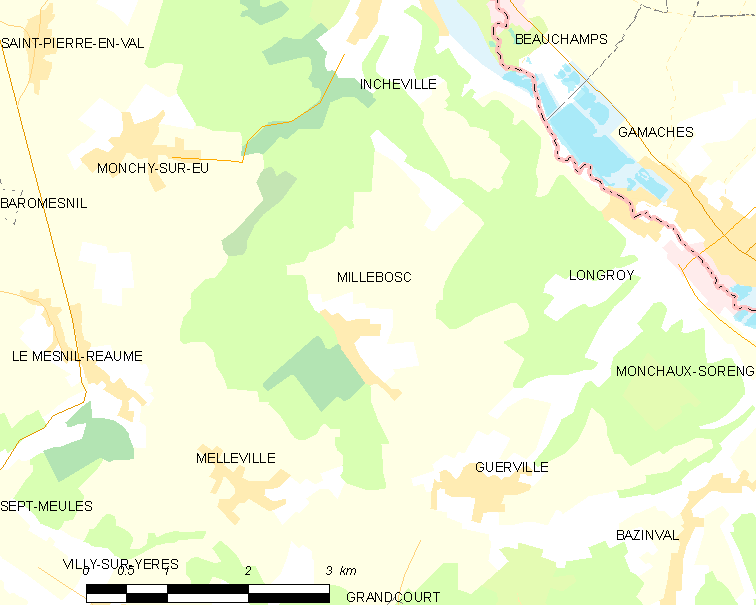 Map of French municipality Millebosc